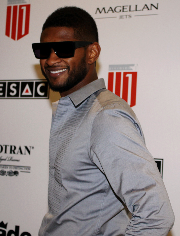 Usher Raymond at the Division 1 Launch Party 2010.